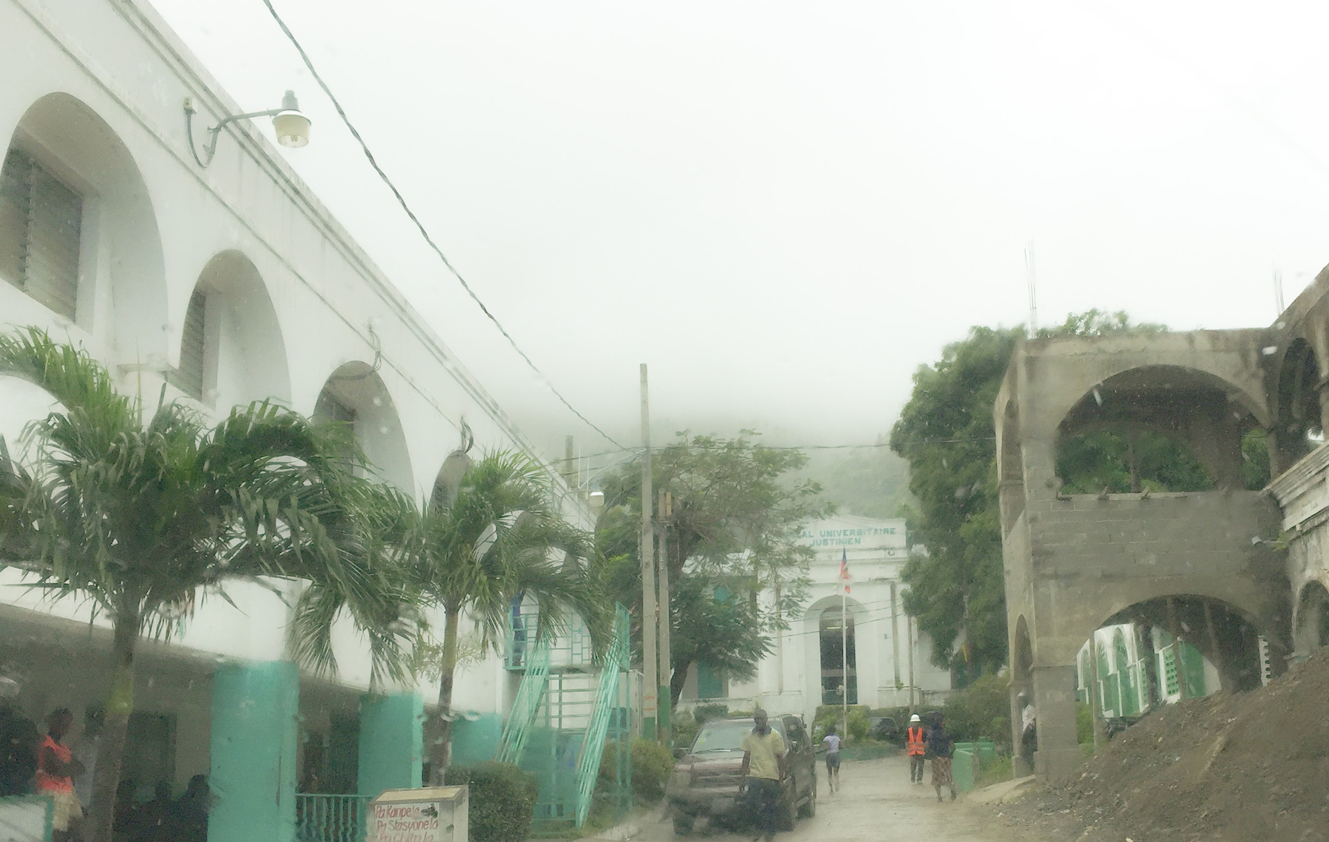 Hôpital Universitaire Justinien (Justinien University Hospital) as seen from the inside of a vehicle on a rainy day